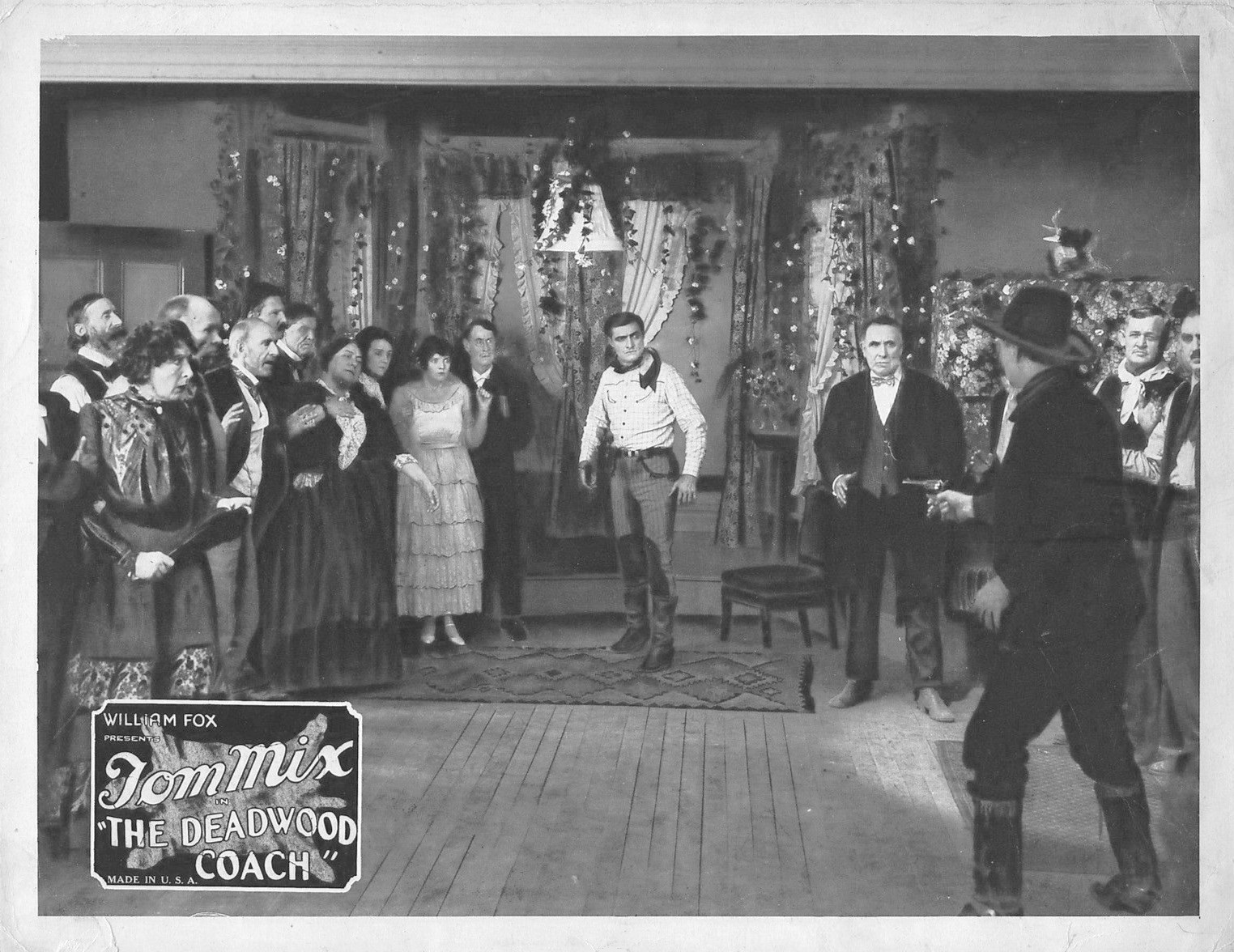 Lobby card for the American western film The Deadwood Coach (1924) with George Bancroft, Hank Bell, Frank Coffyn, Jane Keckley, Lucien Littlefield, Doris May, and Tom Mix.